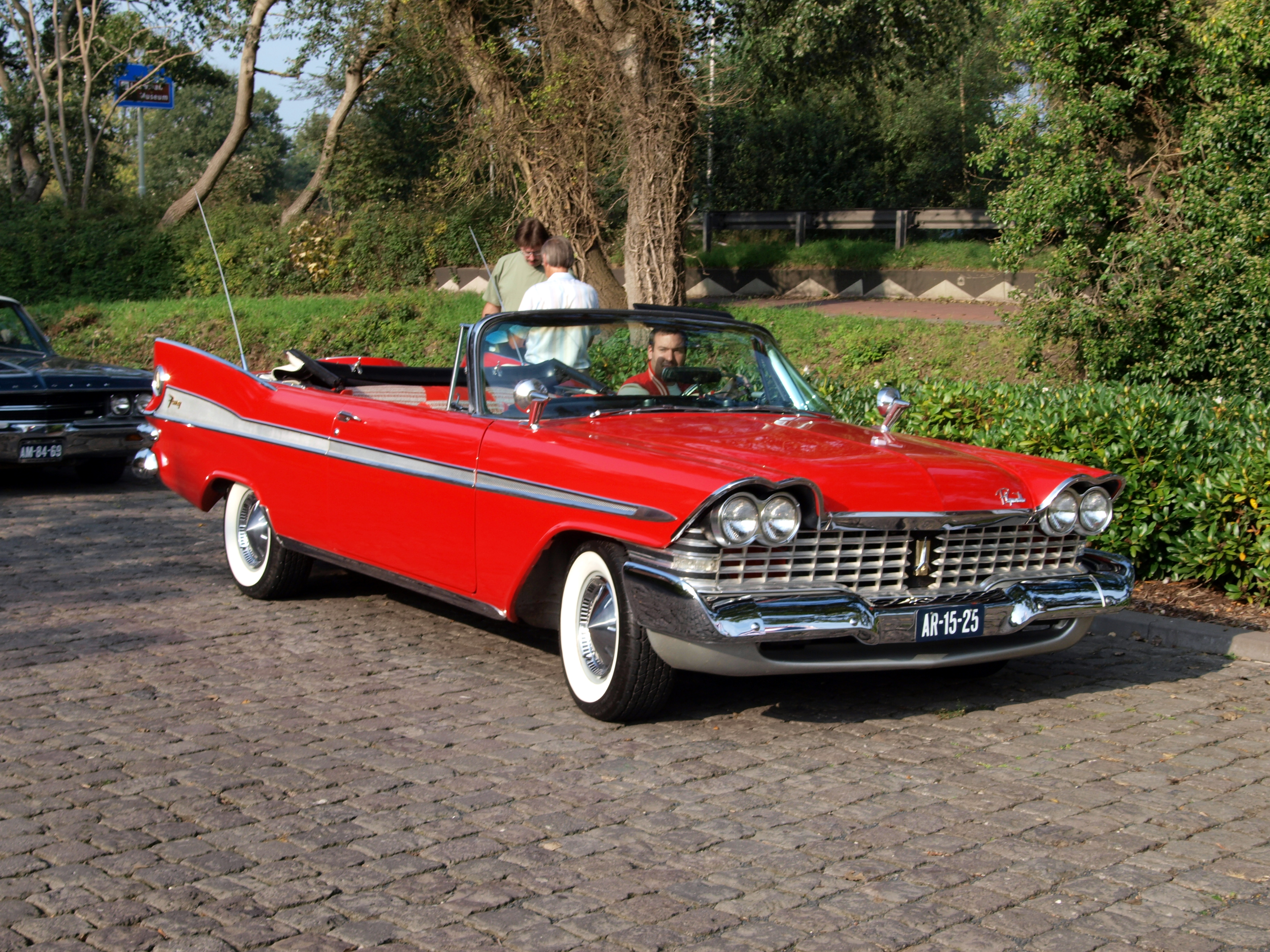 1959 Plymouth Sport Fury, photographed on the premises of the Louwman museum, The Hague, The Netherlands. Olympus E-520 digital camera